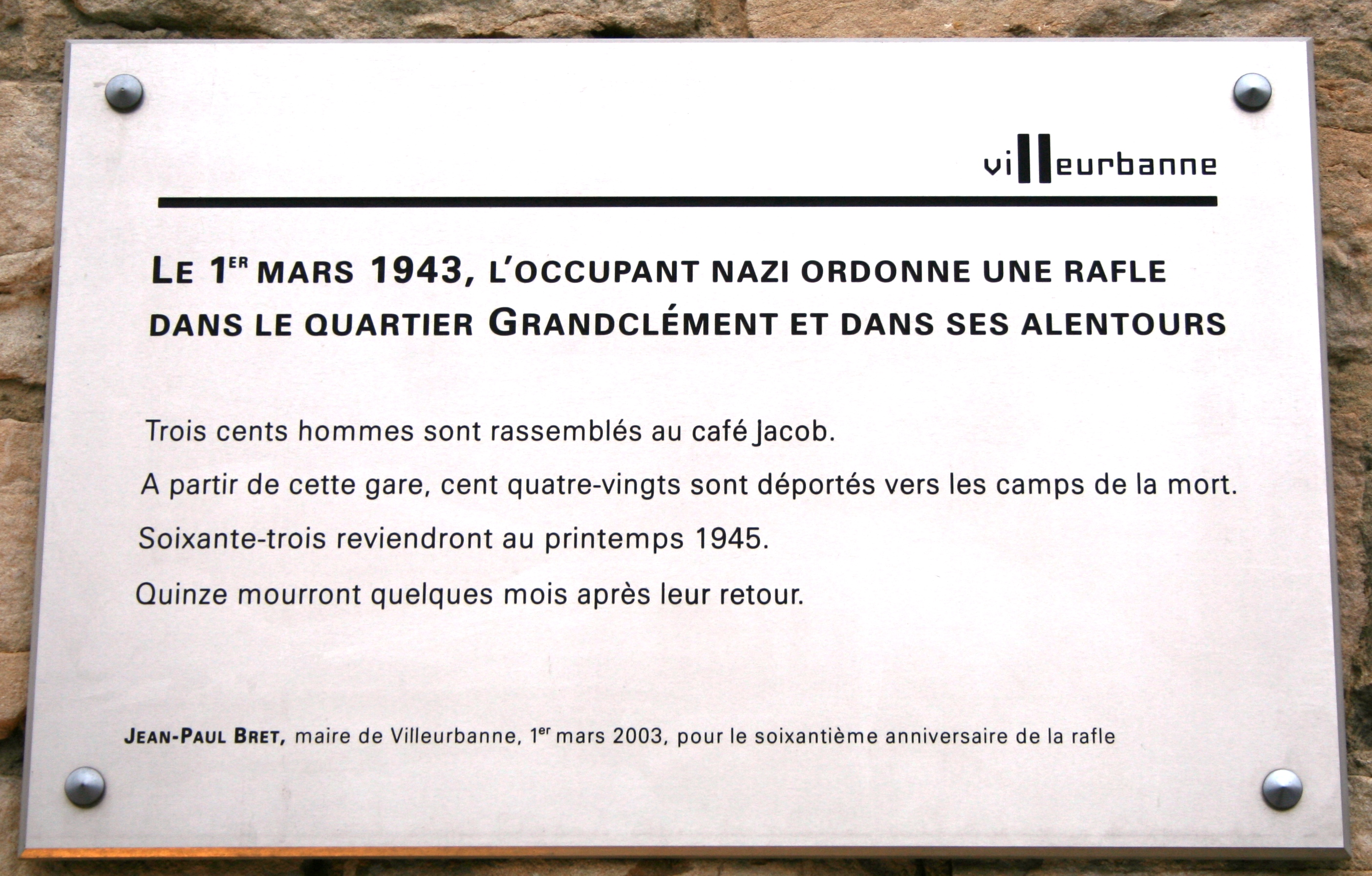 Commemorative plaque on the Villeurbanne train station concerning the deportees of the March 1, 1943 roundup